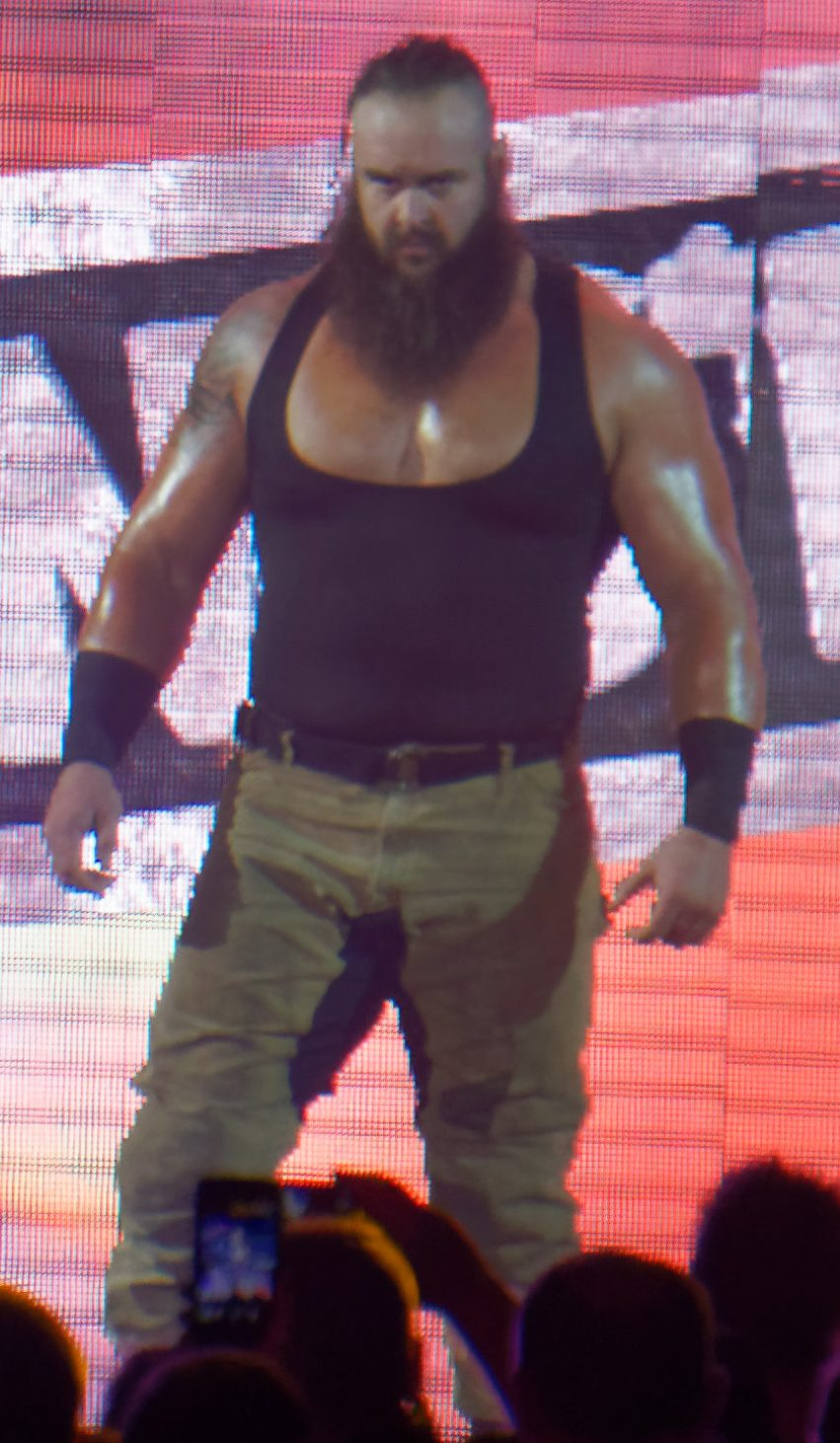 WWE Live returns to London this September Join Roman Reigns, Seth Rollins and more WWE Superstars at the 02 Arena for a one-night-only WWE Live in London on Wednesday, 7 Sept. Braun Strowman def. (sub) Goldust